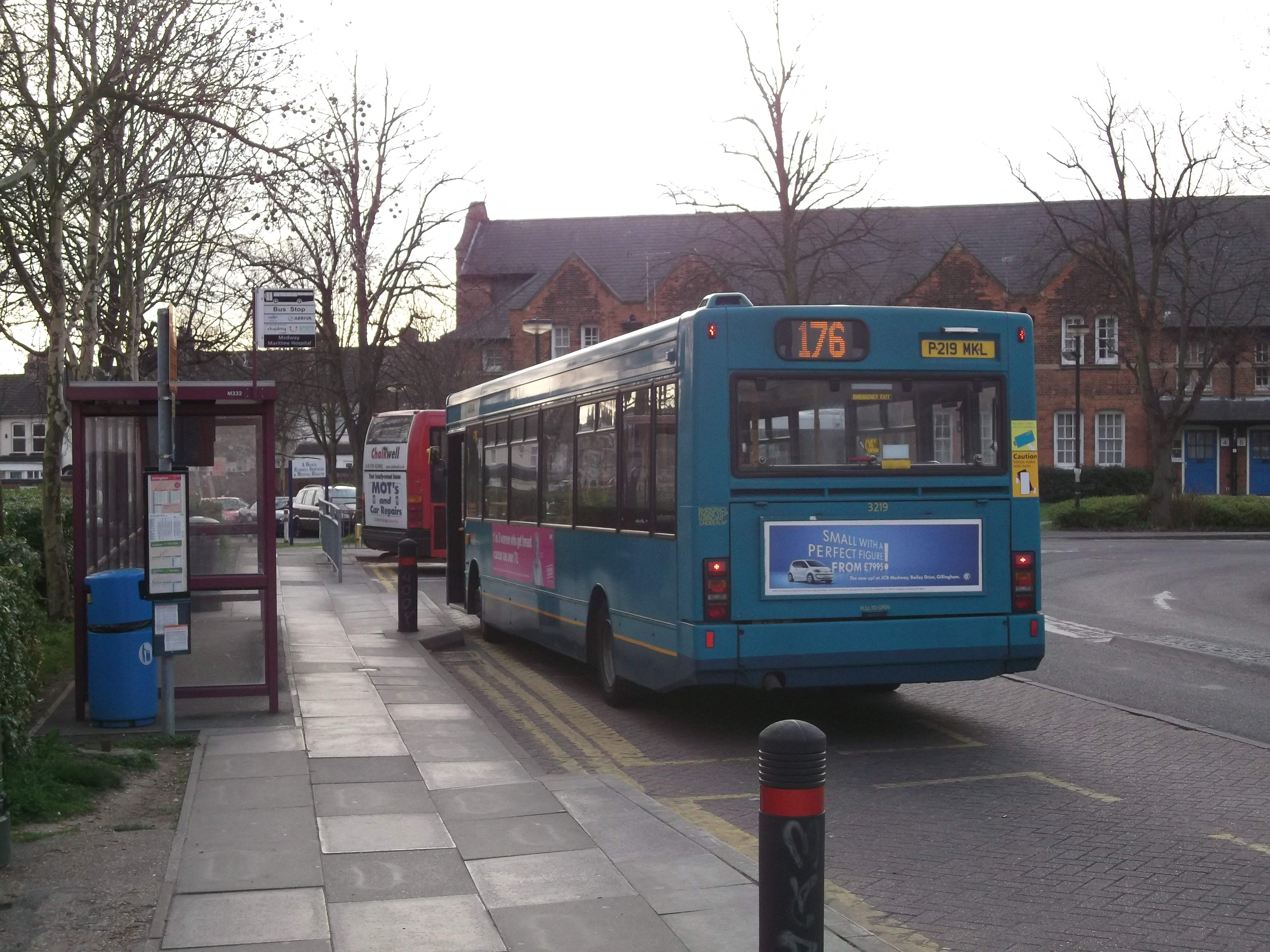 Bus Stop, Medway Maritime Hospital, Data from Geograph: Description: Many Arriva buses and a few Chalkwell Buses use this stop to drop-off patients and staff at the large hospital. ICBM: 51.379377021404, 0.54327075758115 Location: (about 1 km from) near to Luton, Medway, Great Britain.